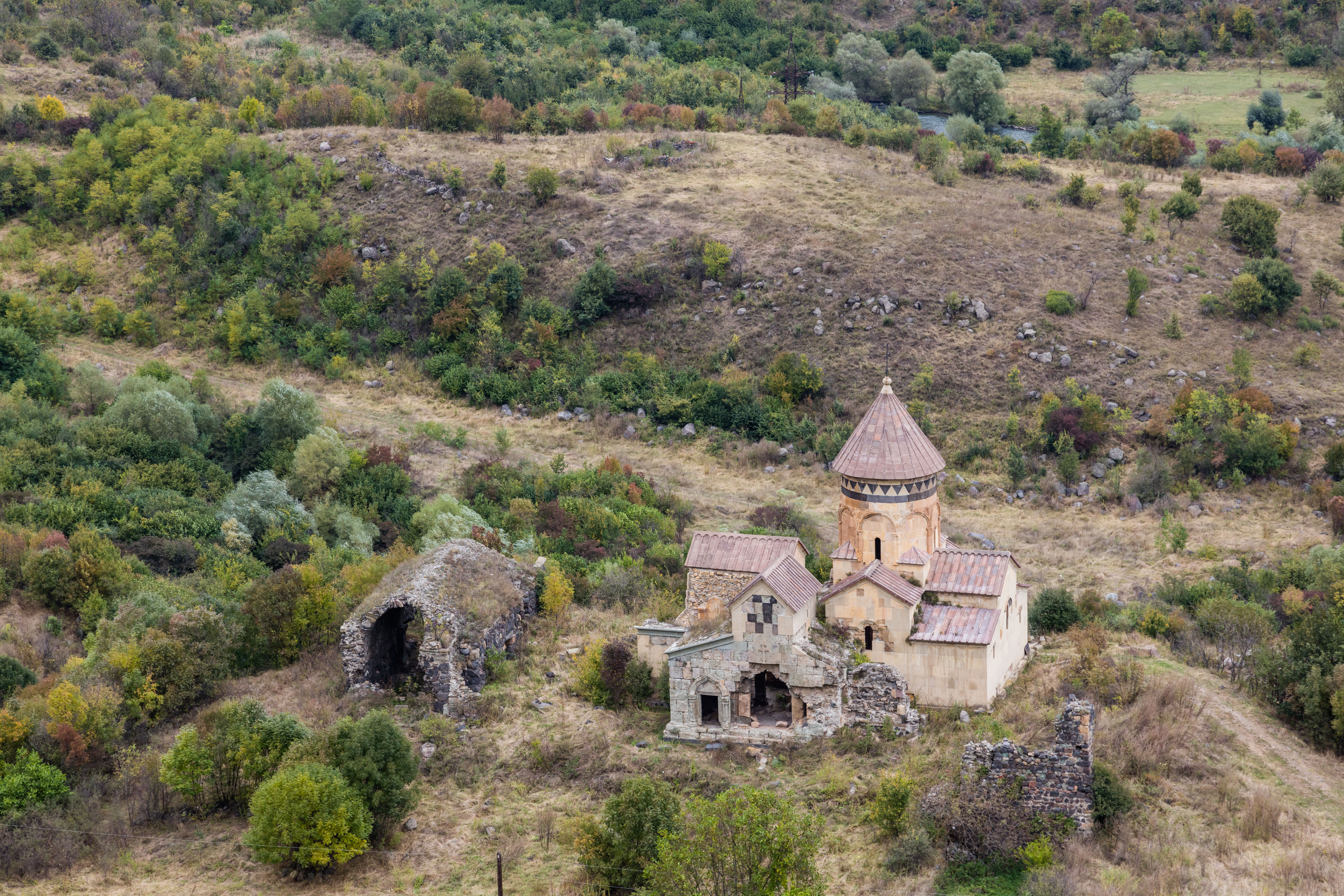 Hnevank Monastery, Armenia